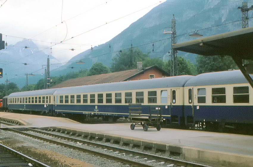 Jenbach - DB Inter-City Train: A German Inter-City train passing through Jenbach, on the Inn River in Austria. Jenbach was the main-line connection for the Zillertal Bahn, which served our destination in Mayrhofen.